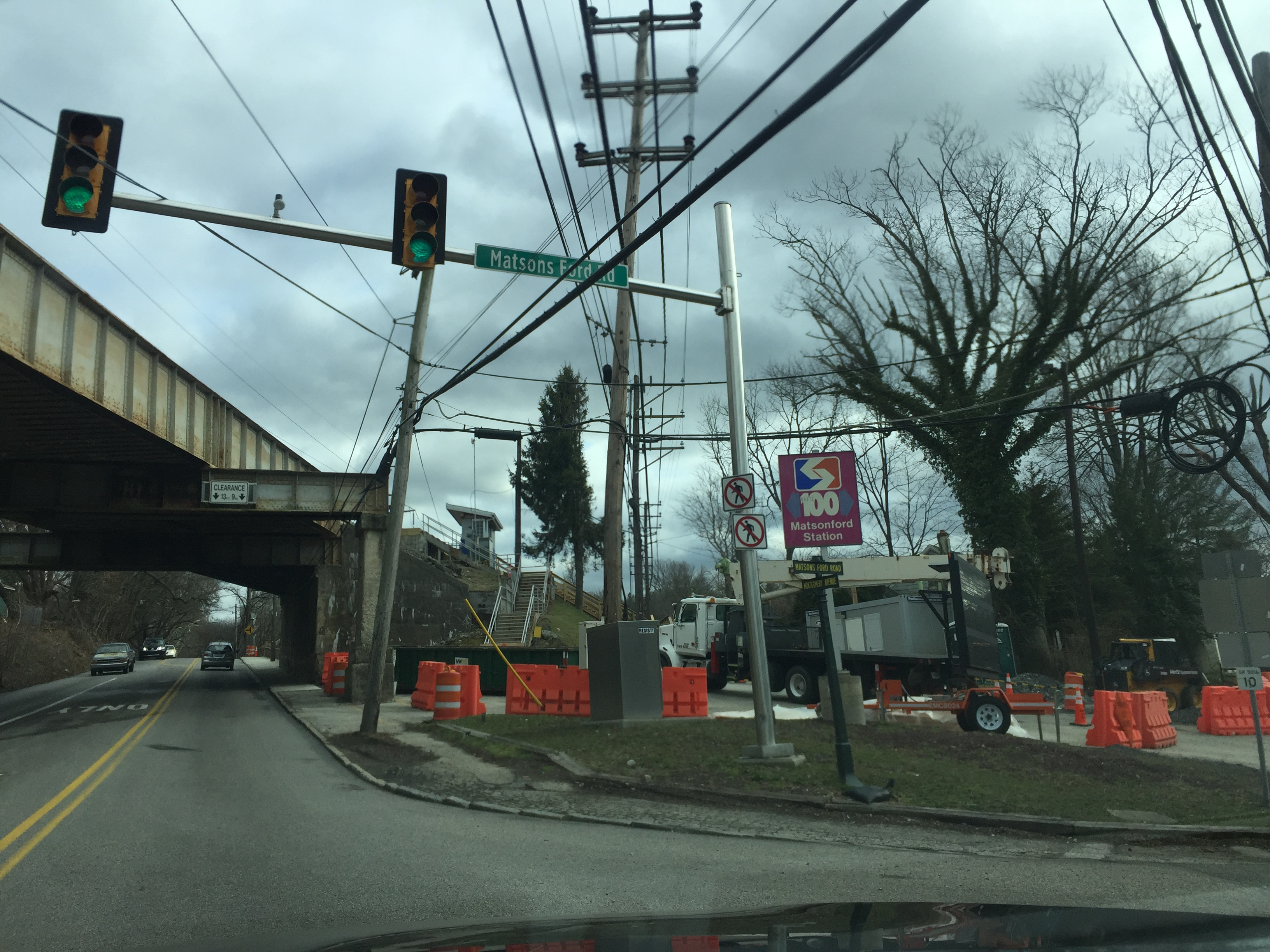 Matsonford station 2017